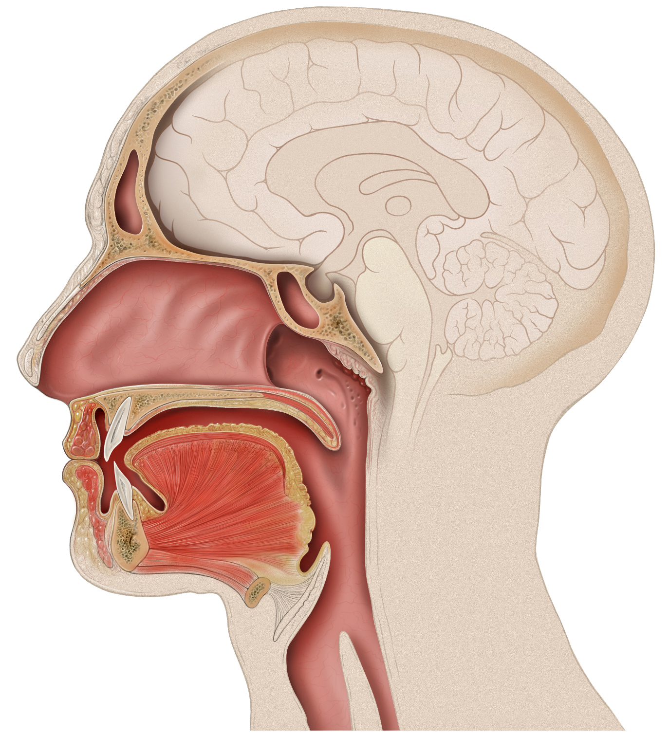 head lateral view with mouth anatomy